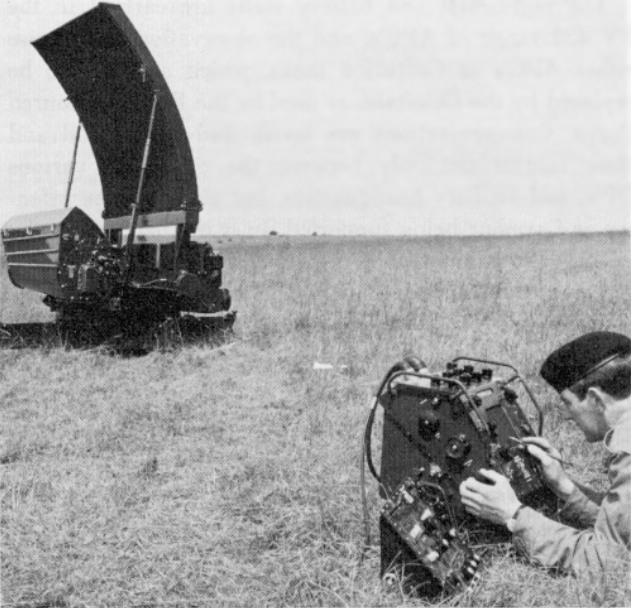 Cyberline Mortar Locating Radar fielded